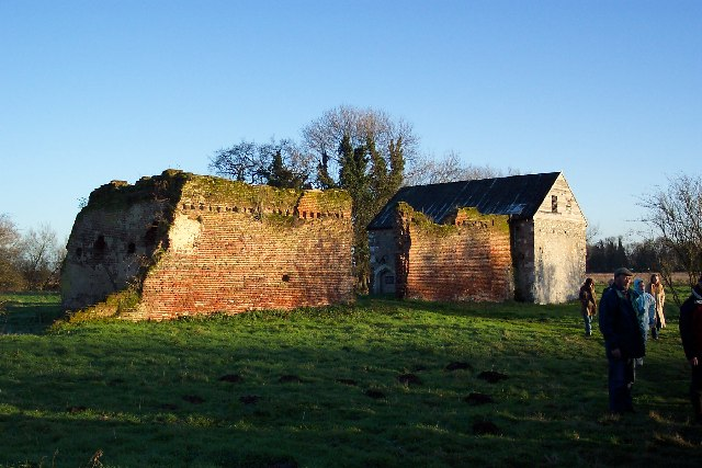 Woking Palace, near Old Woking. The remains of Woking Palace. The palace was the home of Lady Margaret Beaufort, mother of King Henry VII. He and his son, Henry VIII, were frequent visitors and extended the buildings. Little now remains however.